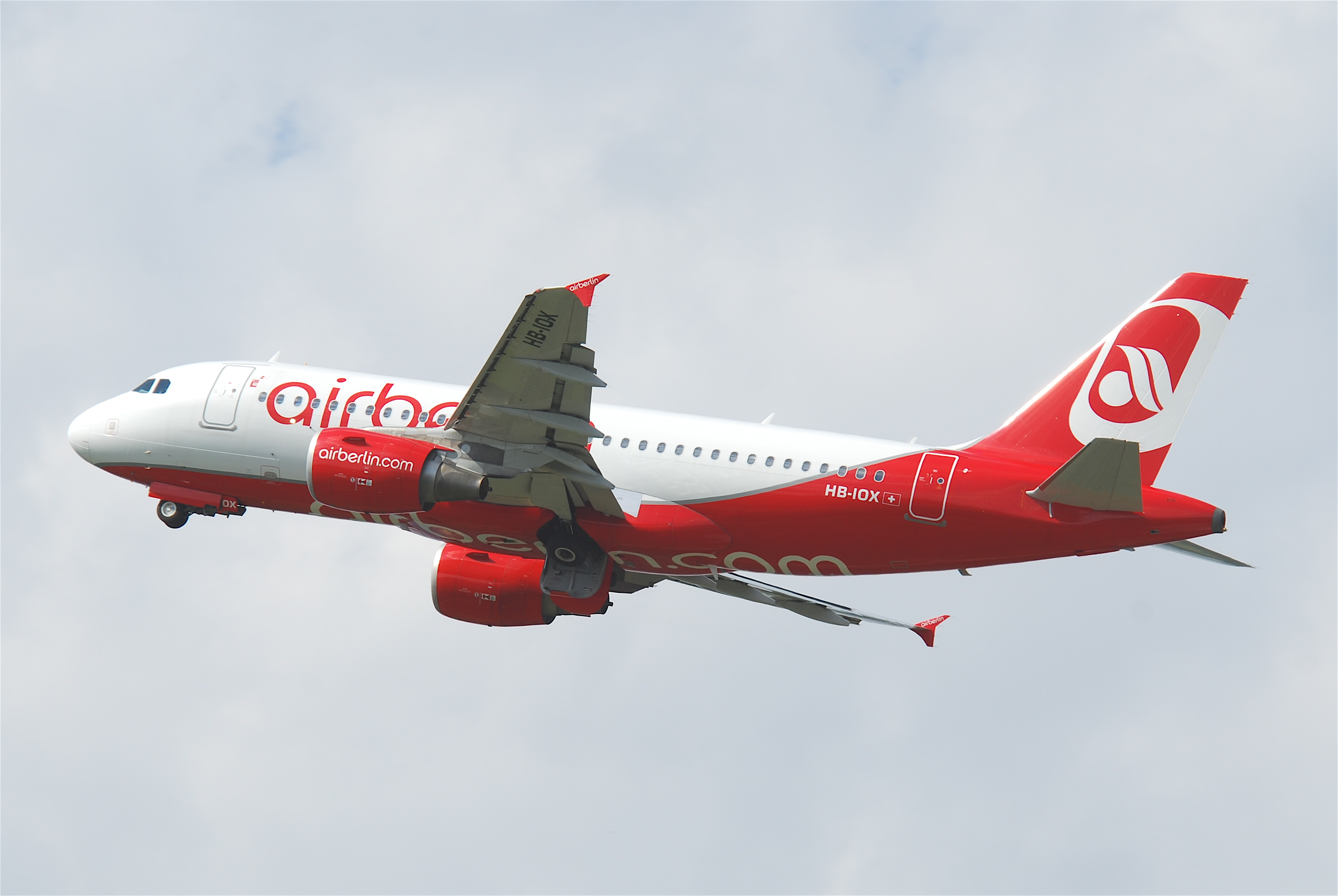 Air Berlin Airbus A319-112; HB-IOX@ZRH;02.07.2011/602co